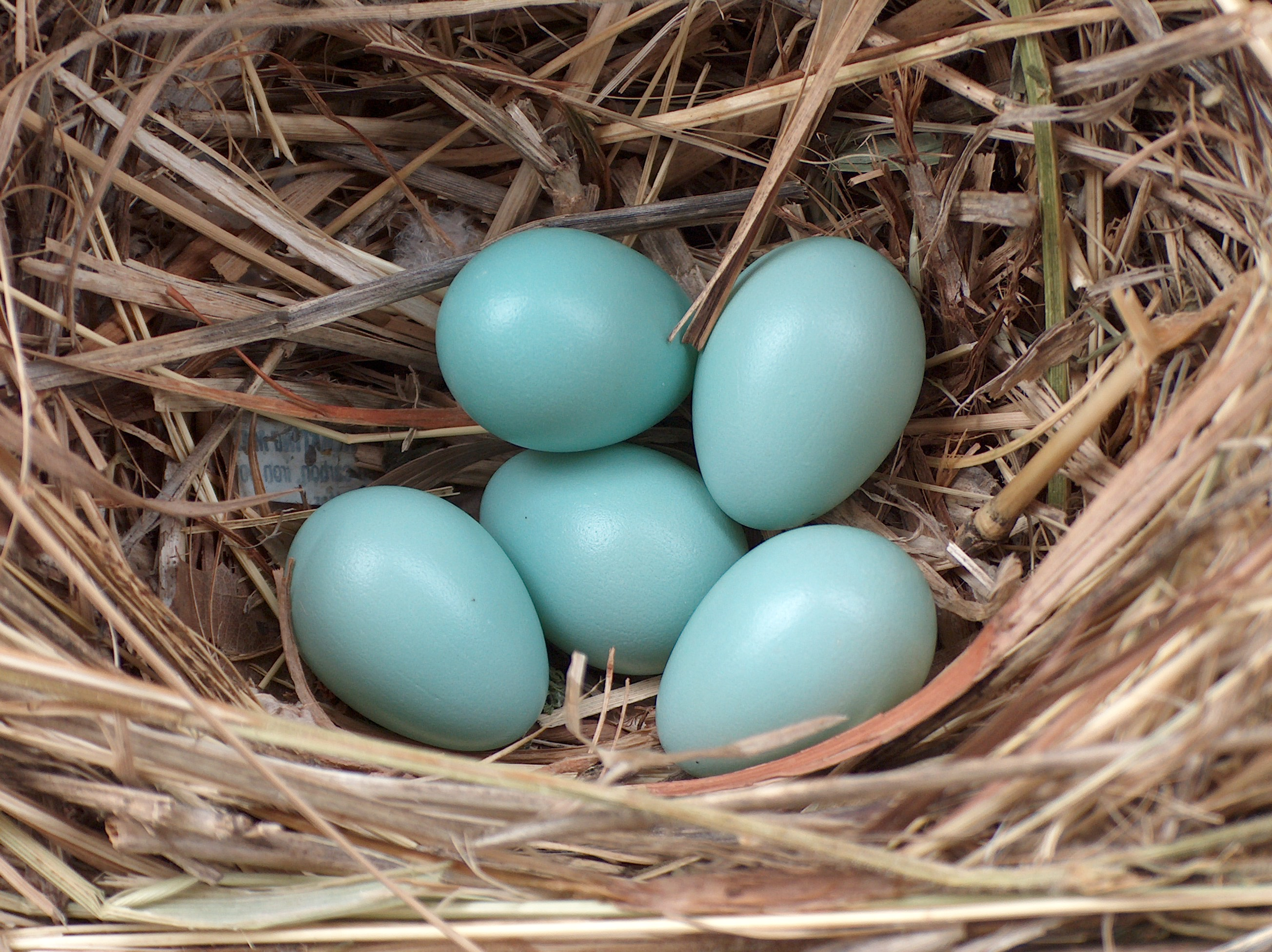 European starling (Sturnus vulgaris) eggs in nest. Photo taken by User:Mike R (Mike Richey) on 30 May, 2006.